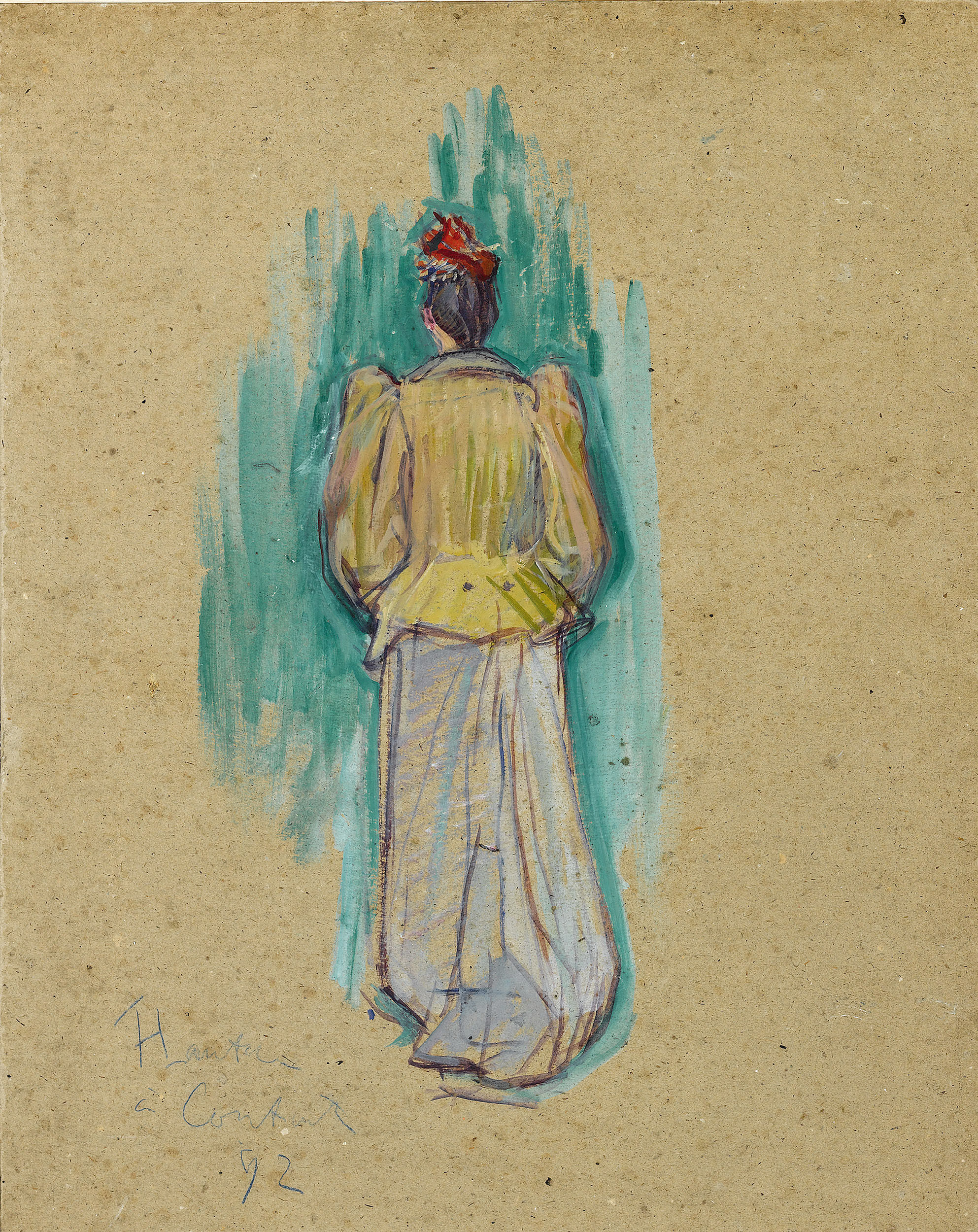 La Promeneuse by Henri de Toulouse-Lautrec. Oil on cardboard, dated 1892